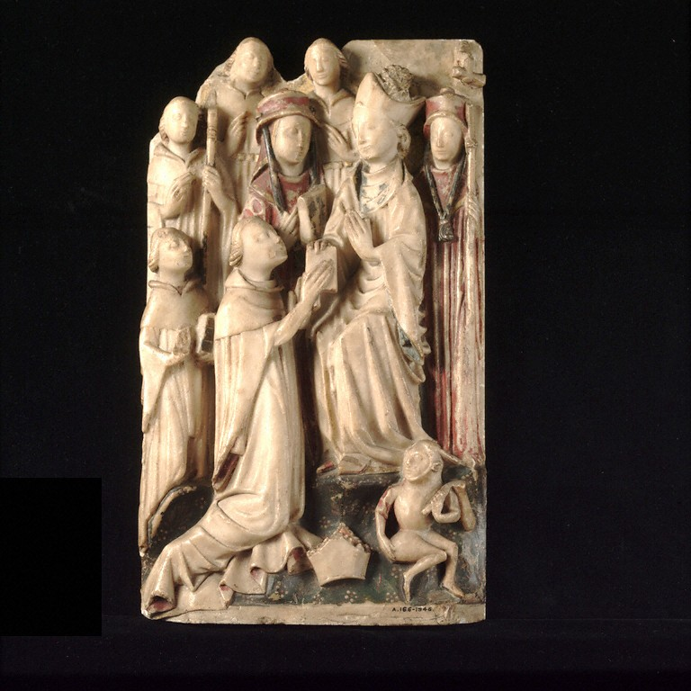 St Thomas Becket meets Pope Alexander III at Sens, Nottingham Alabaster panel, late 15th century, Victoria & Albert Museum.